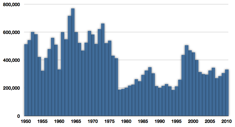 Global fisheries capture of the Pacific herring, Clupea pallasii, from 1950 to 2010 as reported by the FAO. Data source FAO fisheries